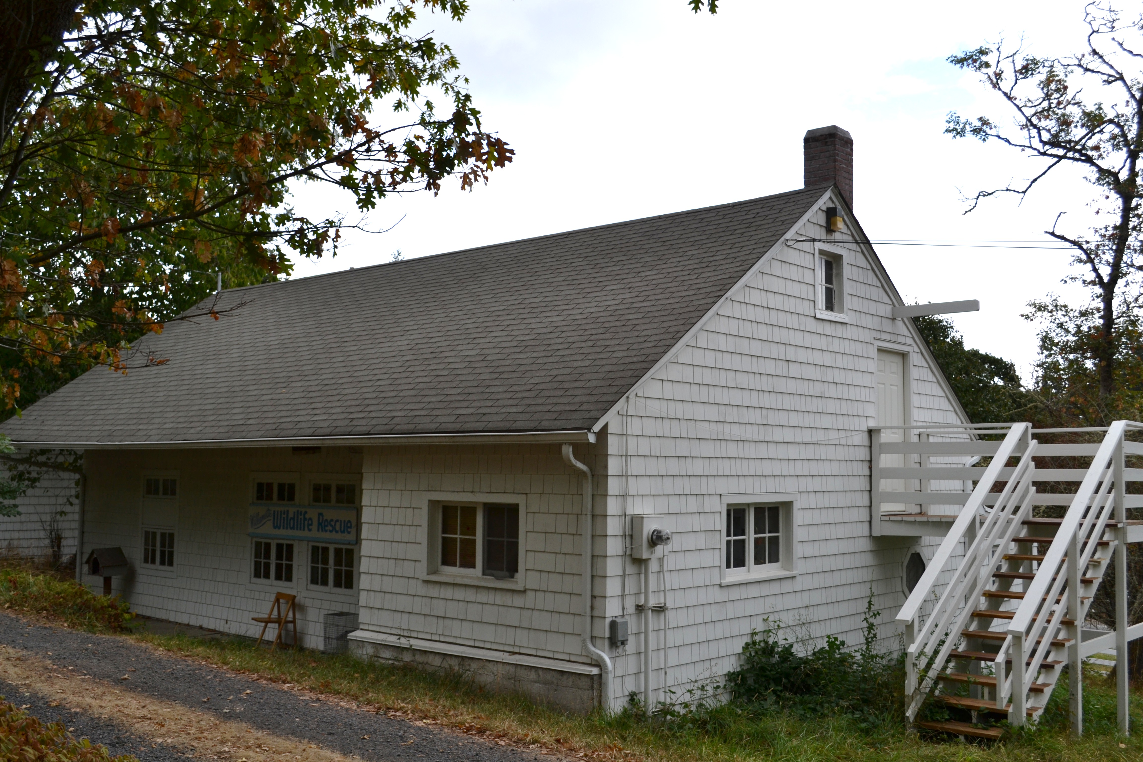 Willamette Wildlife Rescue Center, Eugene, Oregon, United States. Formerly the stable of the Wayne Morse Family Farm.